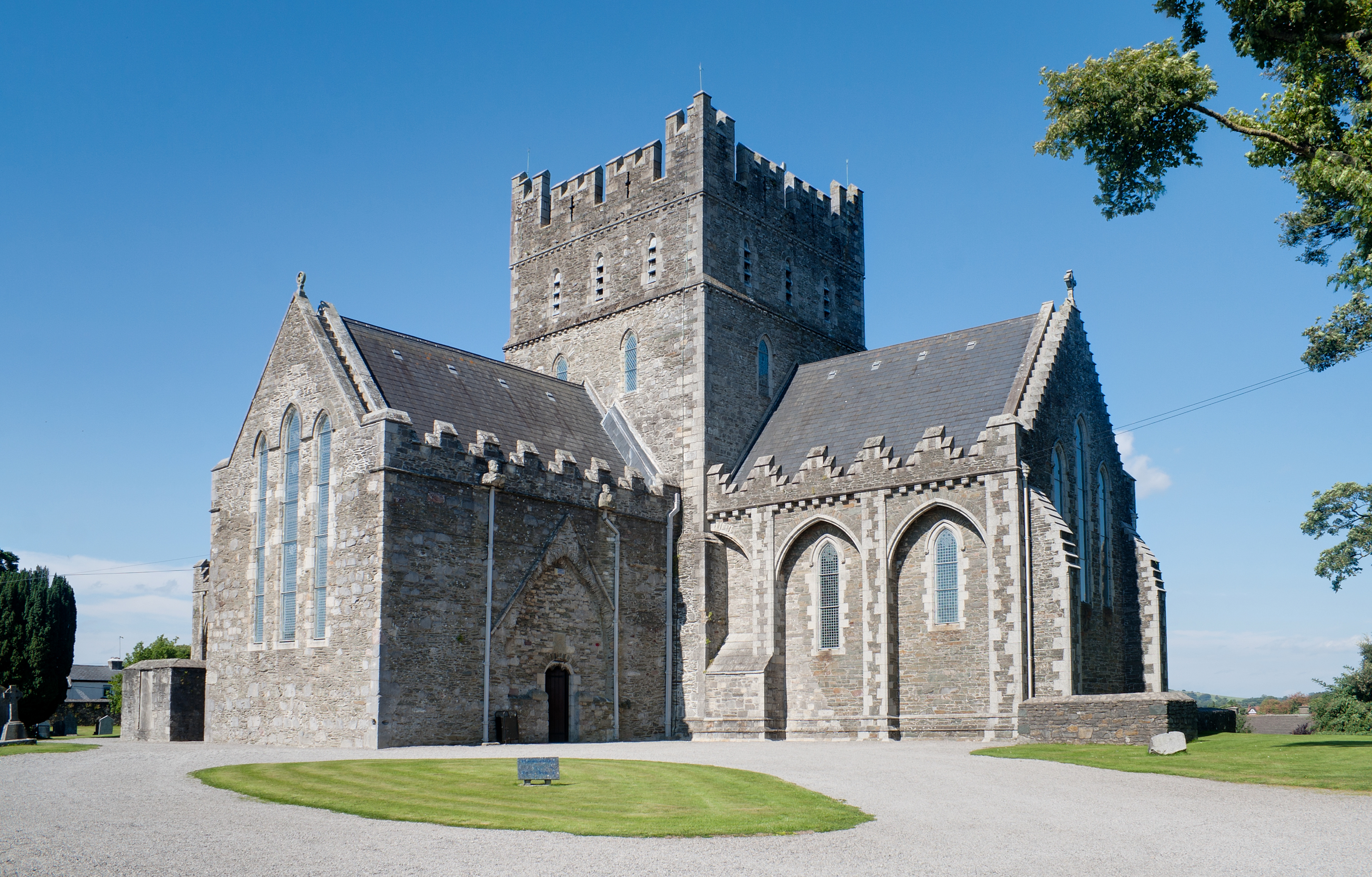 South-east view of the cathedral.